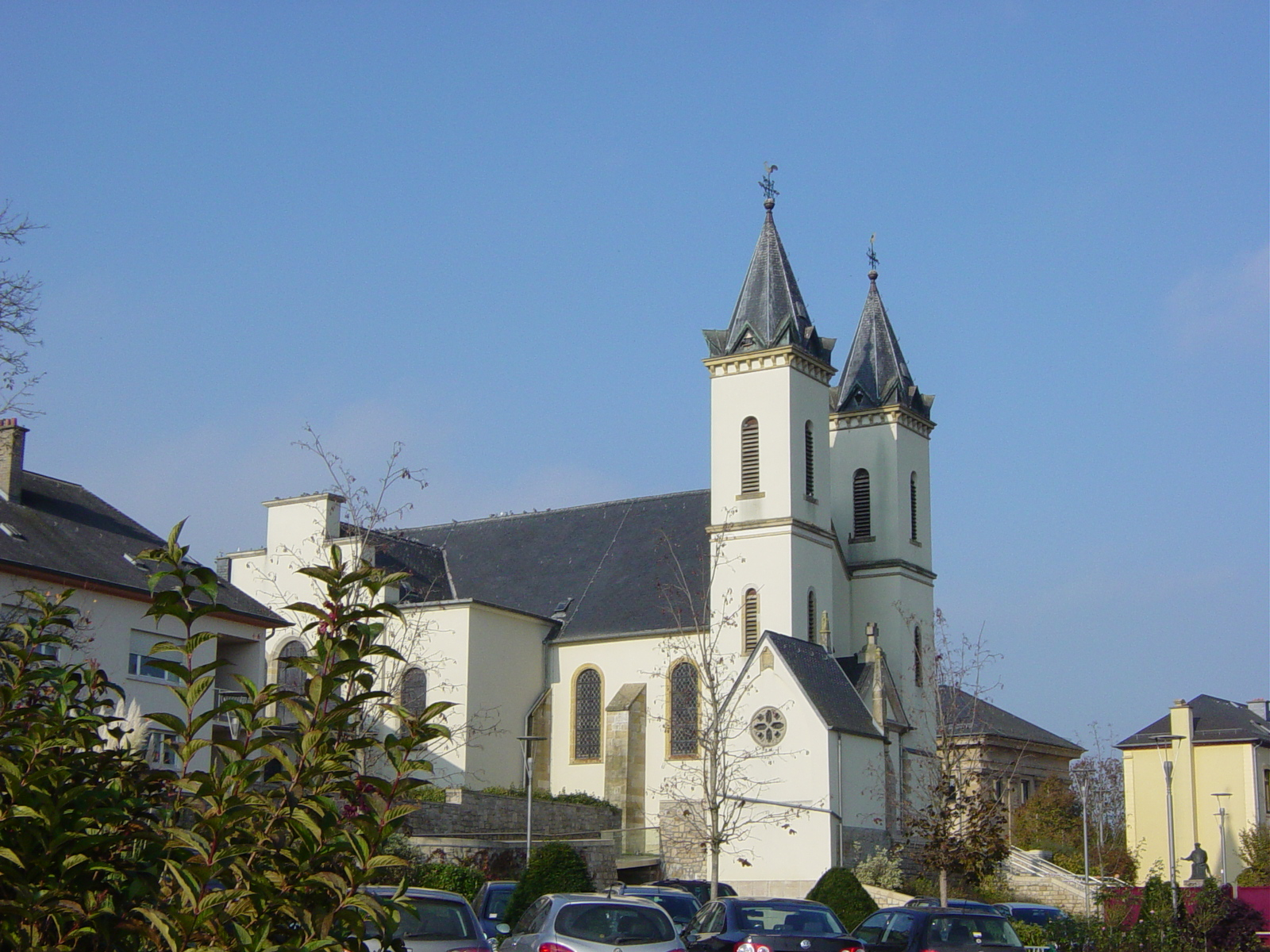 Mamer, Luxembourg, parish church Author: Ipigott